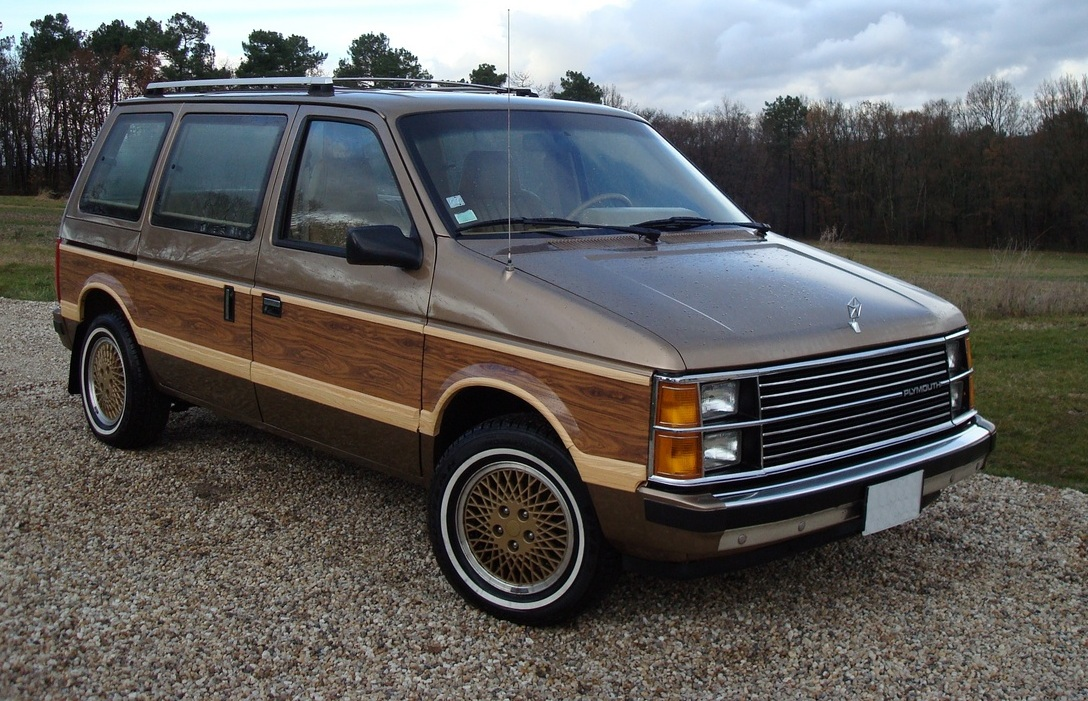 A 1985 Plymouth Voyager LE. The alloy wheels are from a 1989 Voyager LX.